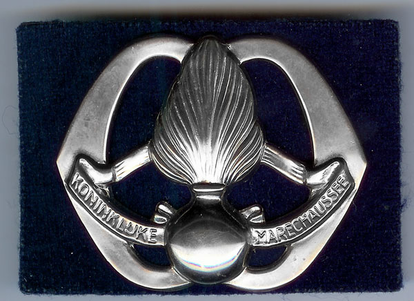 Dutch cap badge from the Royal Marechaussee worn betweem 1947 and 1998